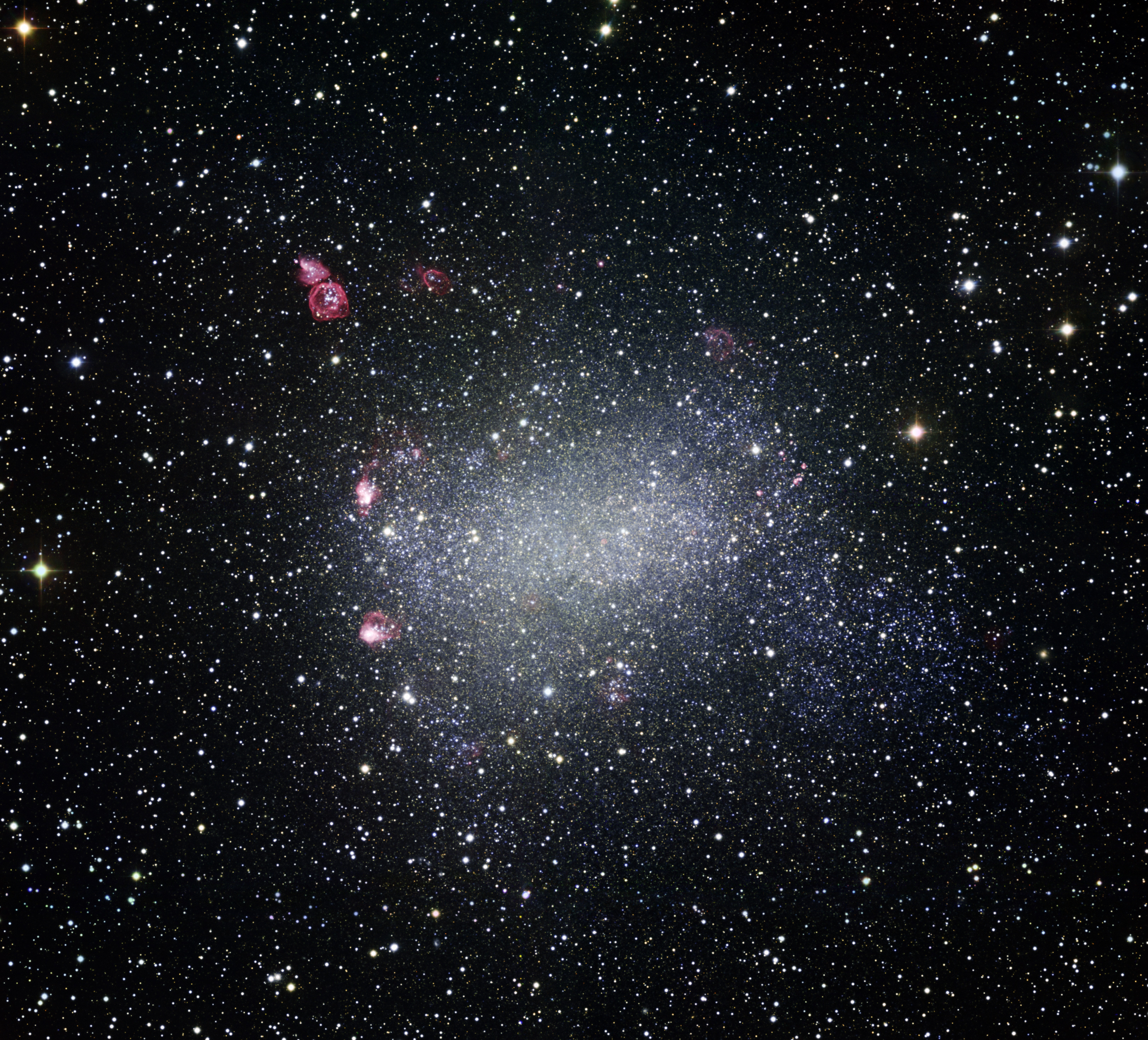 Astronomers obtained this portrait of Barnard’s Galaxy using the Wide Field Imager attached to the 2.2-metre MPG/ESO telescope at ESO’s La Silla Observatory in northern Chile. Also known as NGC 6822, this dwarf irregular galaxy is one of the Milky Way’s galactic neighbours. The dwarf galaxy has no shortage of stellar splendour and pyrotechnics. Reddish nebulae in this image reveal regions of active star formation, wherein young, hot stars heat up nearby gas clouds. Also prominent in the upper left of this new image is a striking bubble-shaped nebula. At the nebula’s centre, a clutch of massive, scorching stars send waves of matter smashing into surrounding interstellar material, generating a glowing structure that appears ring-like from our perspective. Other similar ripples of heated matter thrown out by feisty young stars are dotted across Barnard’s Galaxy.